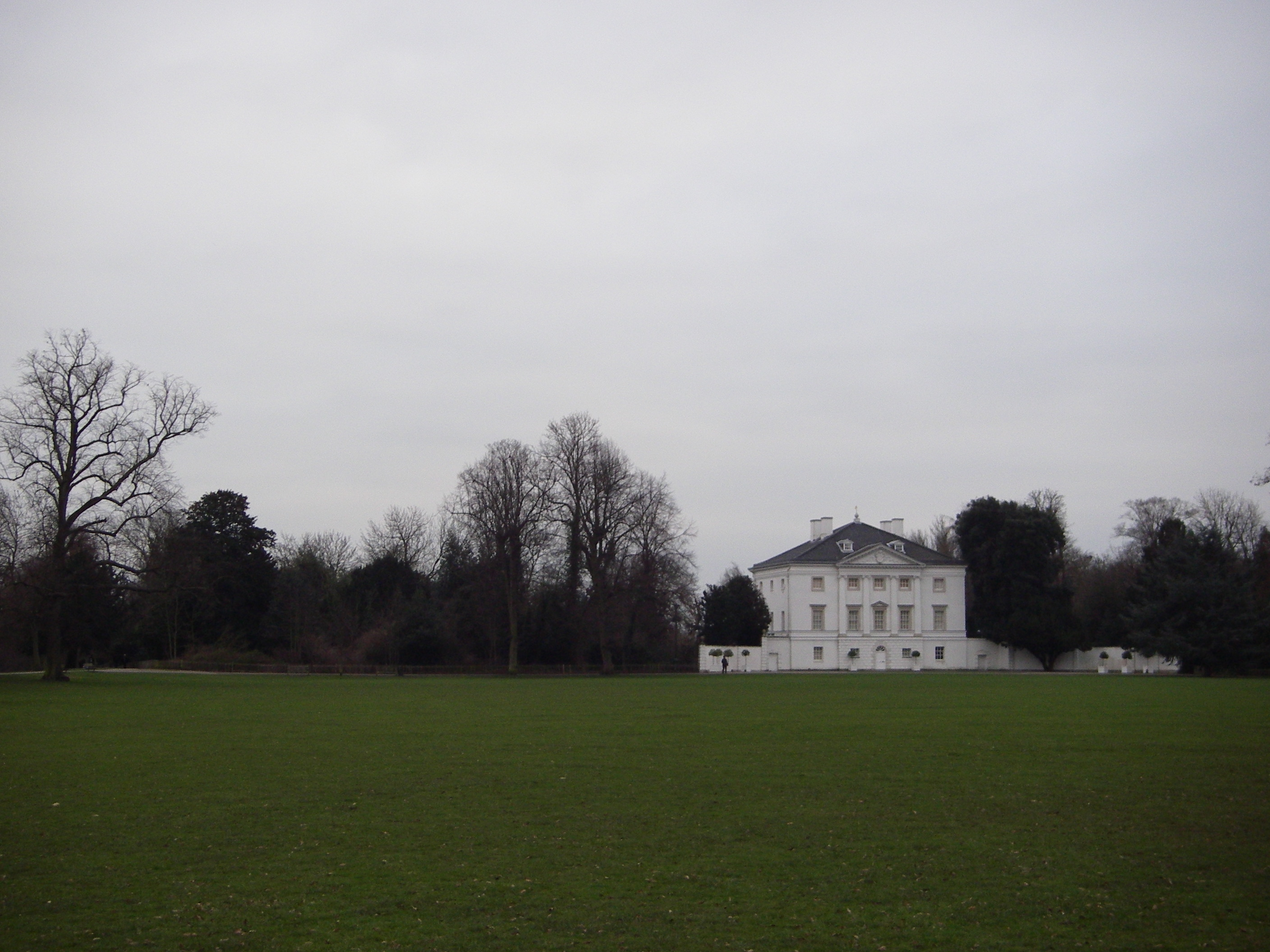 View of Marble Hill House within Marble Hill Park